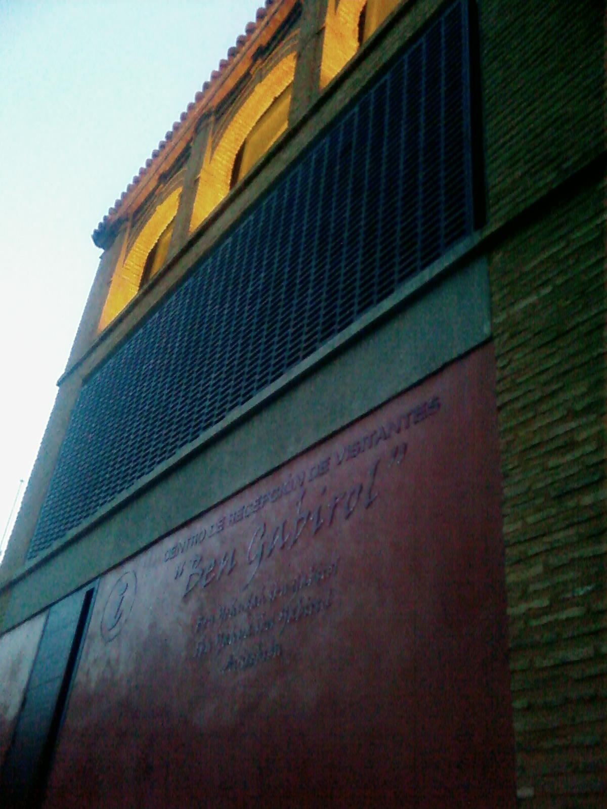 "Ben Gabirol" info centre at mudejar tower in Calle Granada, Málaga, Spain